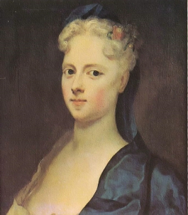 spouse by bigamy of the king of Denmark and later lawfully queen-consort